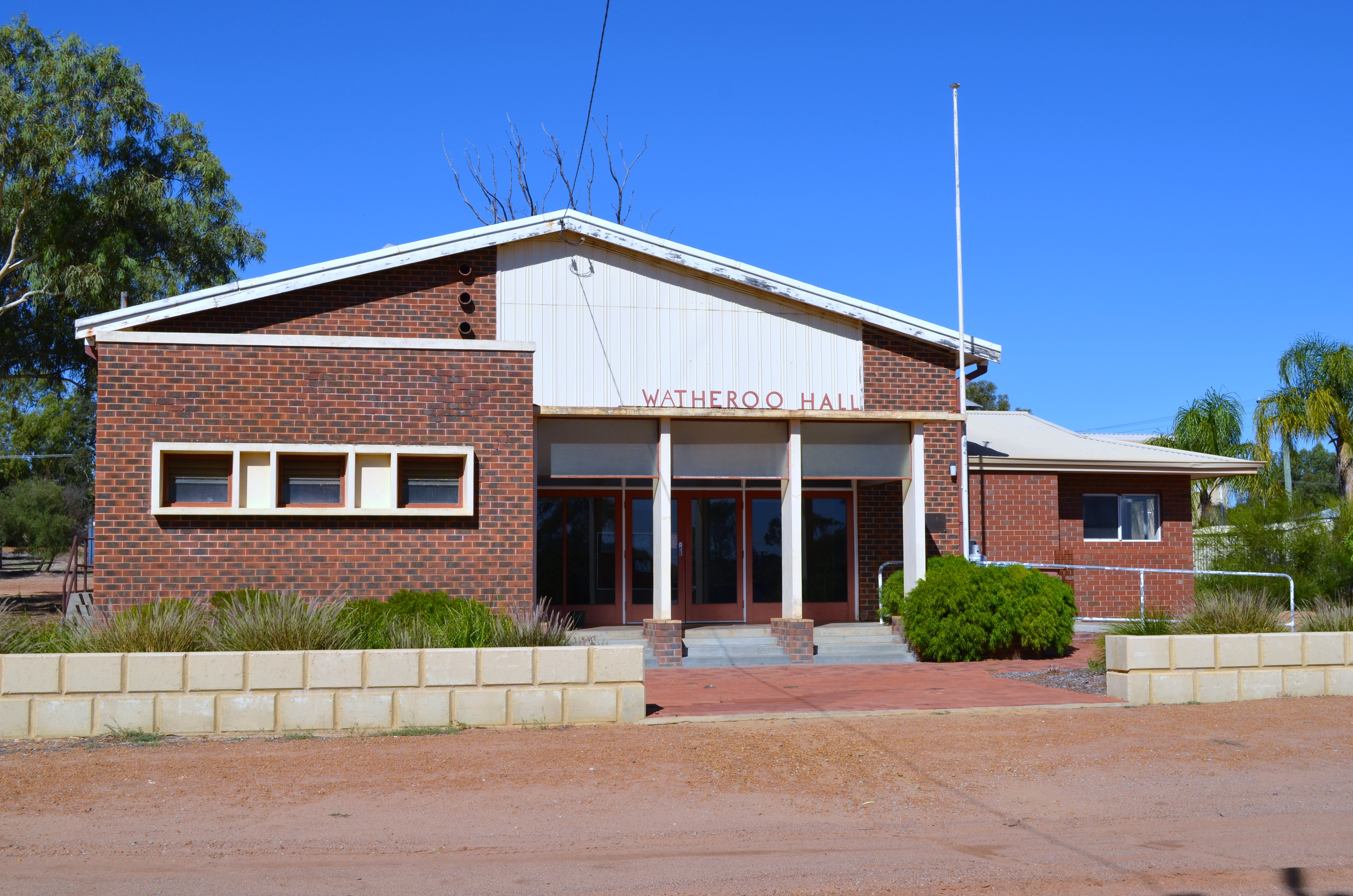 View of the Watheroo Hall, Watheroo, Western Australia.